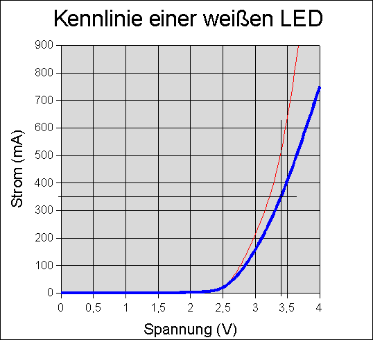 Schematic characteristic current/voltage curve of a white LED.